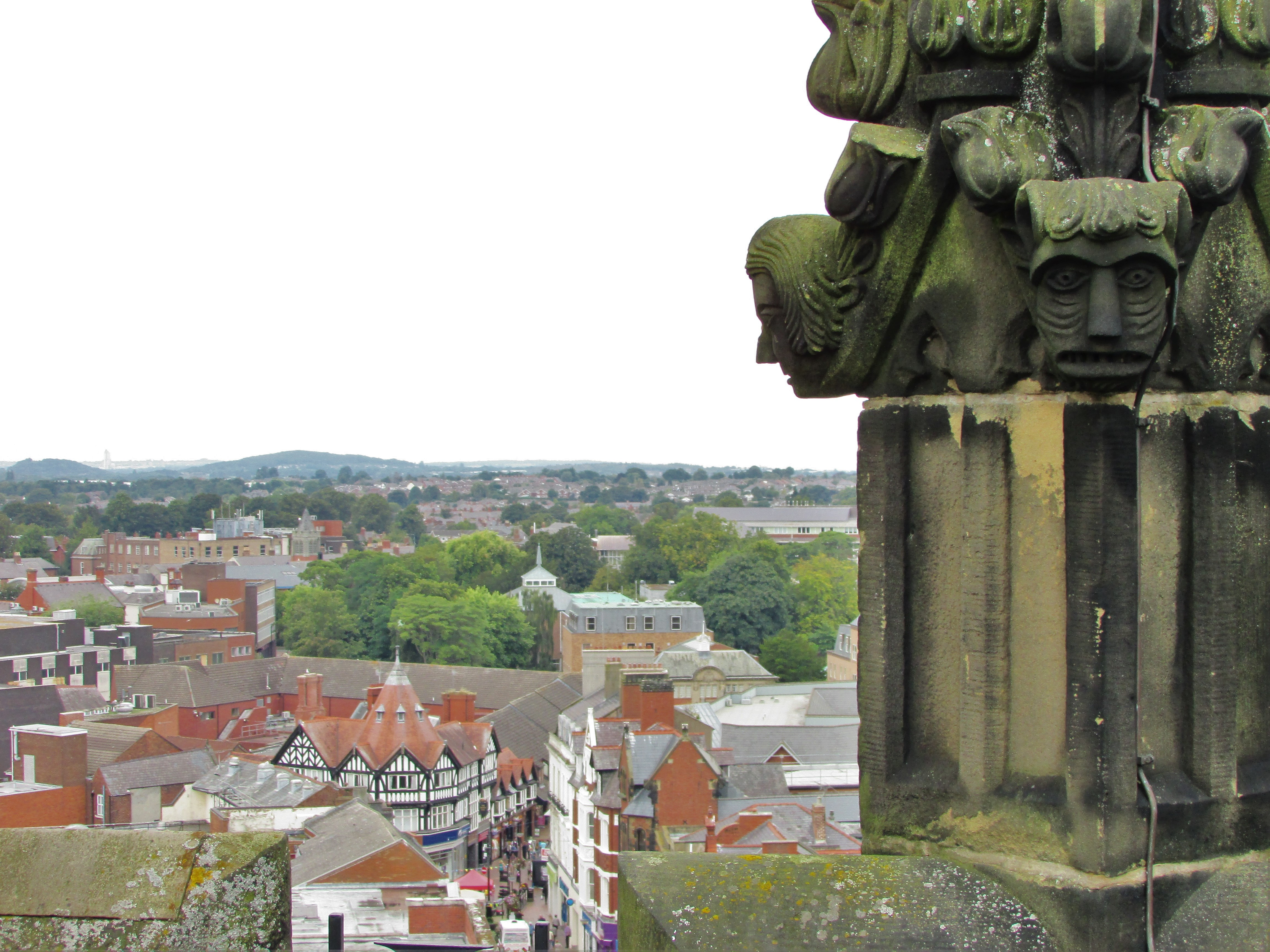 Wrexham town centre overlooked by 16th century grotesques on one of the sixteen pinnacles of St Giles' Church